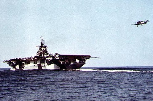 The U.S. Navy aircraft carrier USS Hancock (CV-19) recovers a Grumman F6F Hellcat fighter, circa 1944. The ship is painted in Camouflage Measure 32, Design 3a.